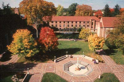 Cranbrook Educational Community